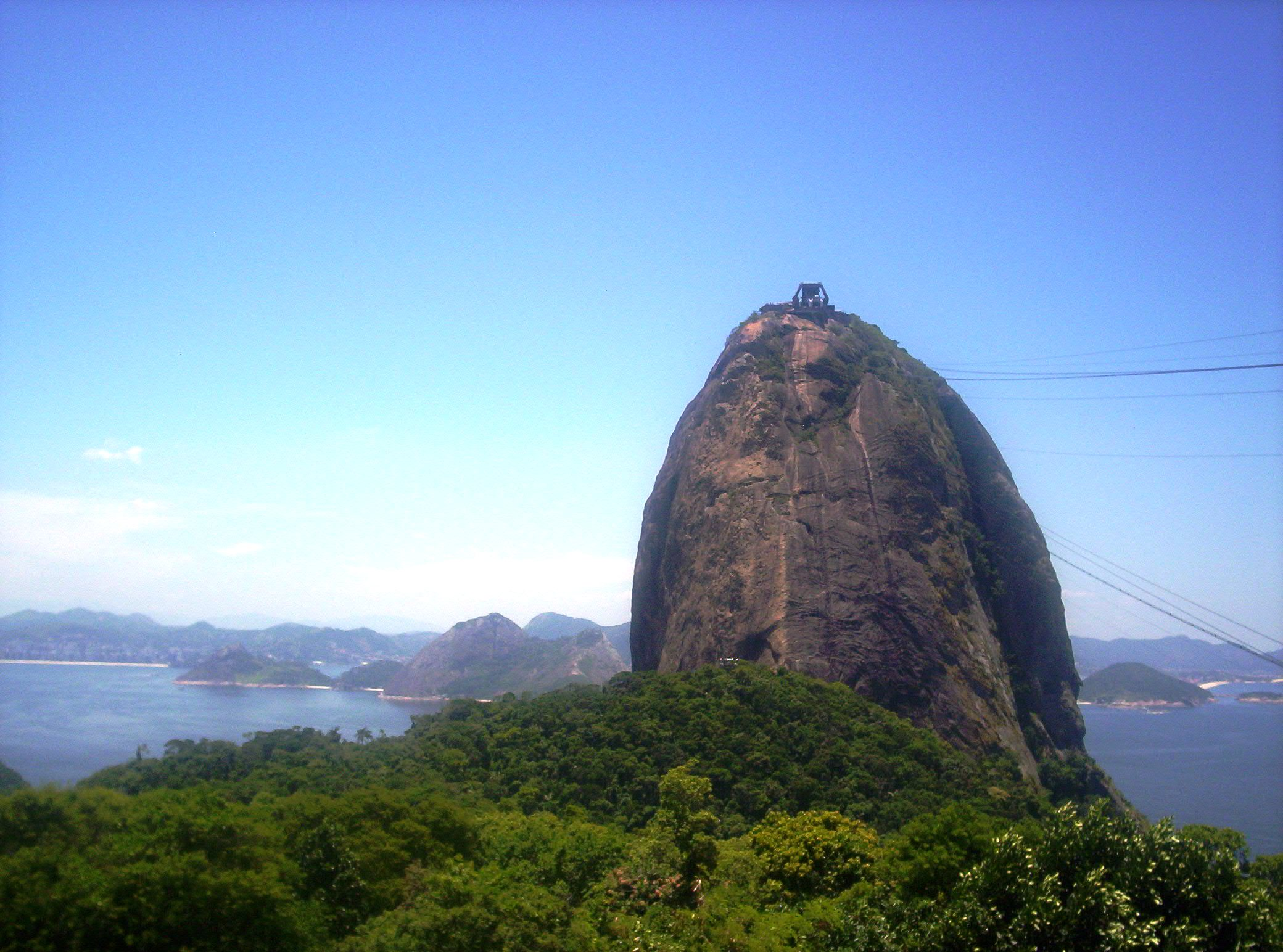 The Sugarloaf Mountain in Rio de Janeiro, Brazil, characteristic landform of the city.